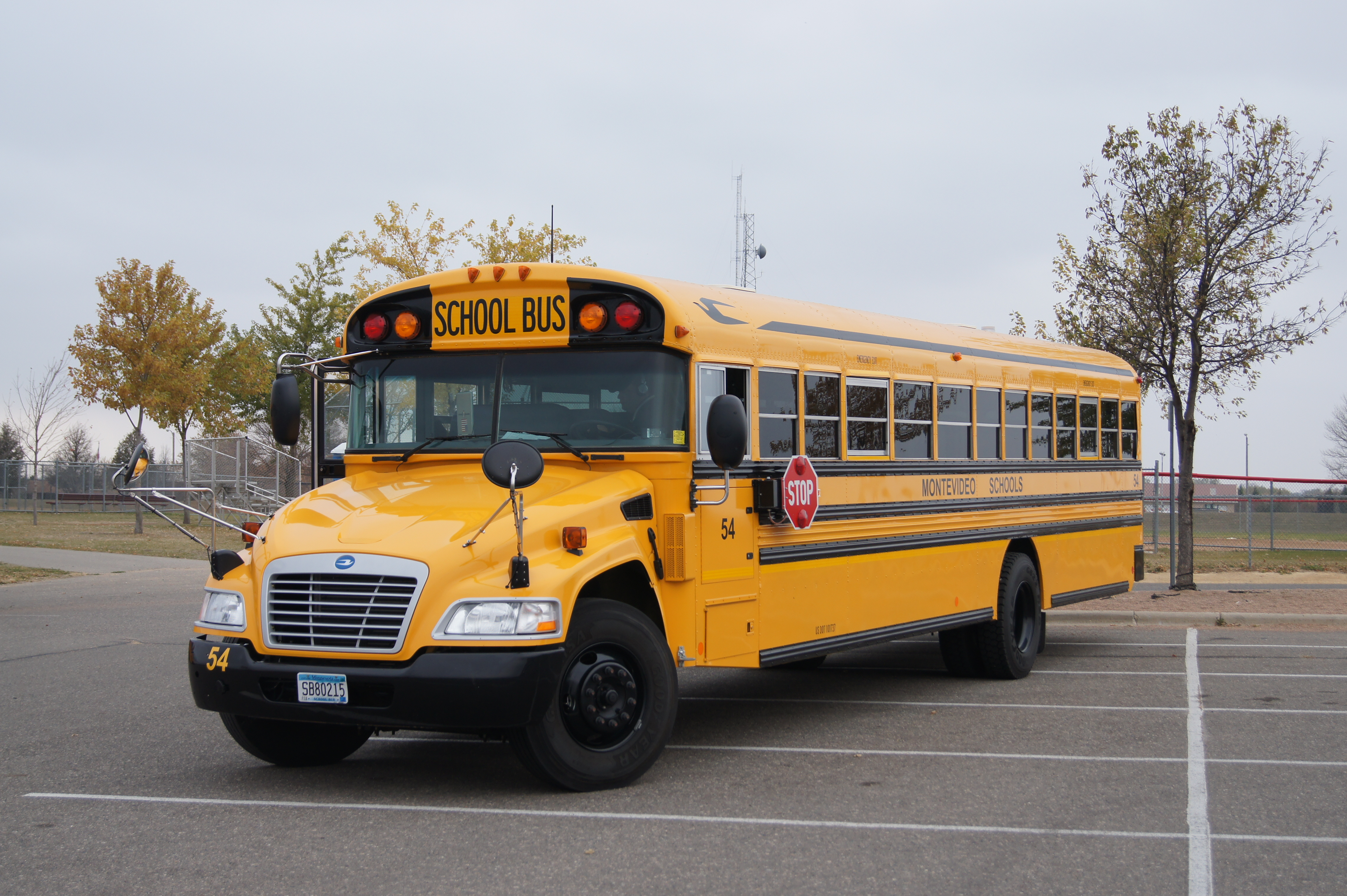 A front 3/4 view of a school bus operated by Montevideo (Minnesota) Schools. The bus is a 2008-2010 Blue Bird Vision conventional-style school bus.